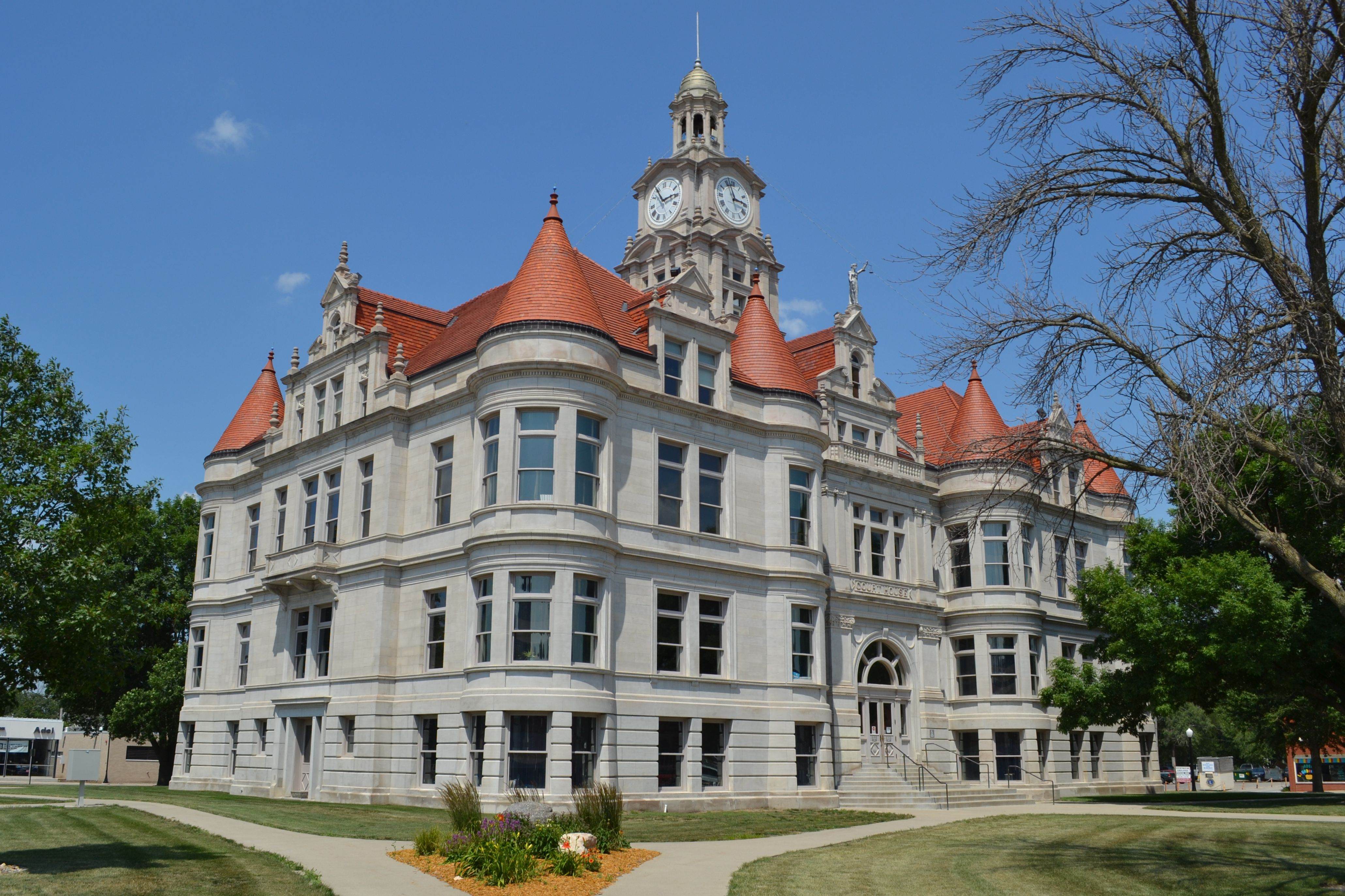 Dallas County Courthouse